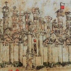 Lucca